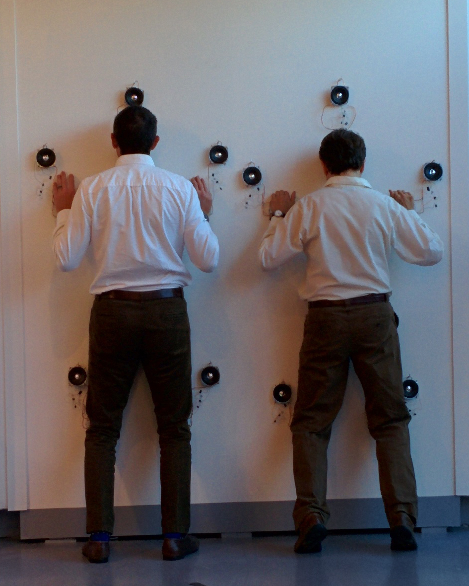 Performance by Diana Burgoyne at Catalyze: Lively Objects Opening Reception, held at the Museum of Vancouver as part of the ISEA International conference in August, 2015.